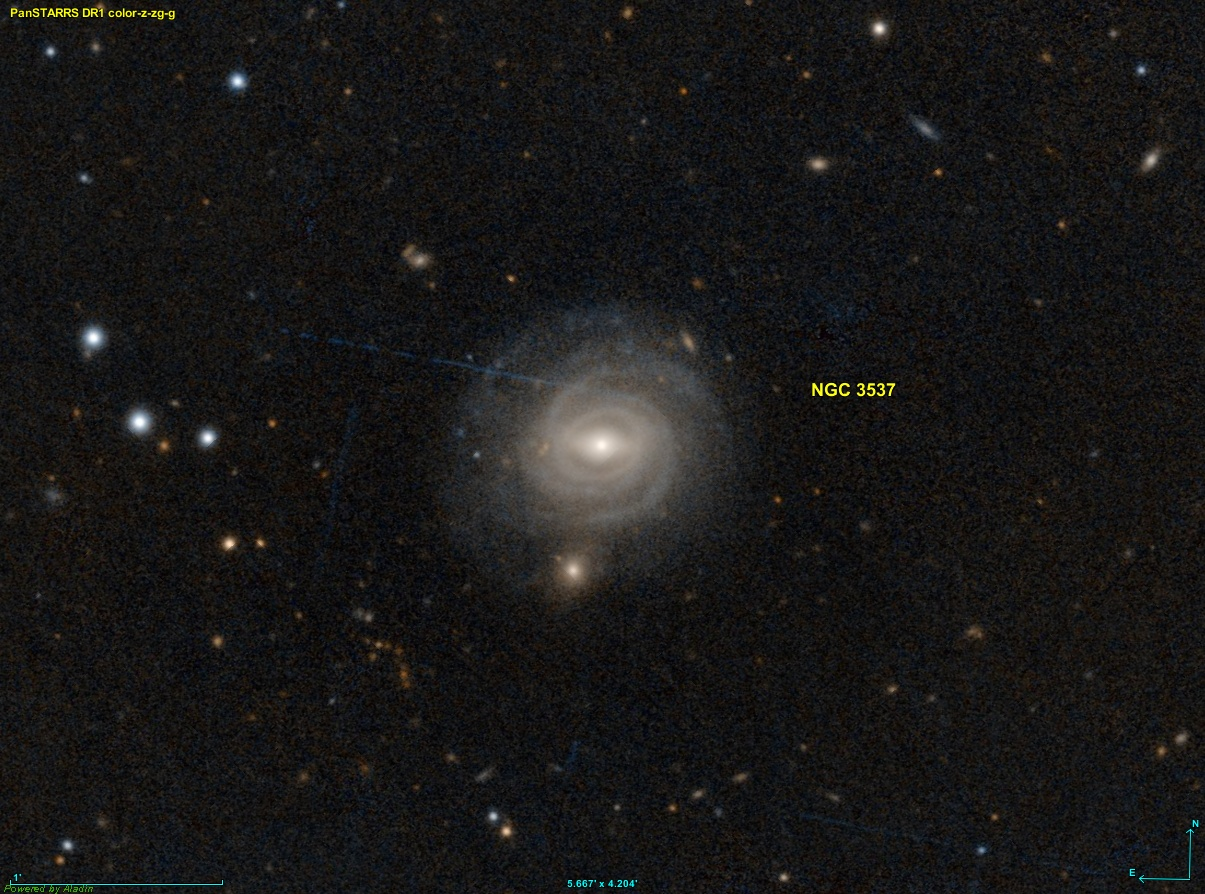 Image created using the Aladin Sky Atlas software from the Strasbourg Astronomical Data Center and Pan-STARRS (Panoramic Survey Telescope And Rapid Response System) public data.